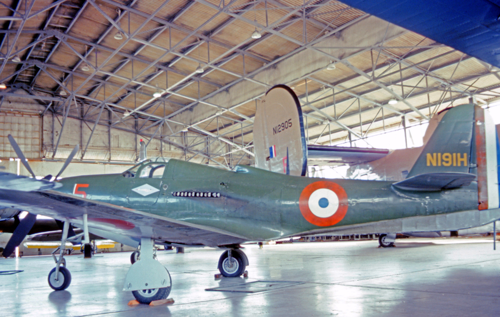 Bell P-63A Kingcobra in French Air Force markings with the Confederate Air Force at Harlingen Texas in 1975